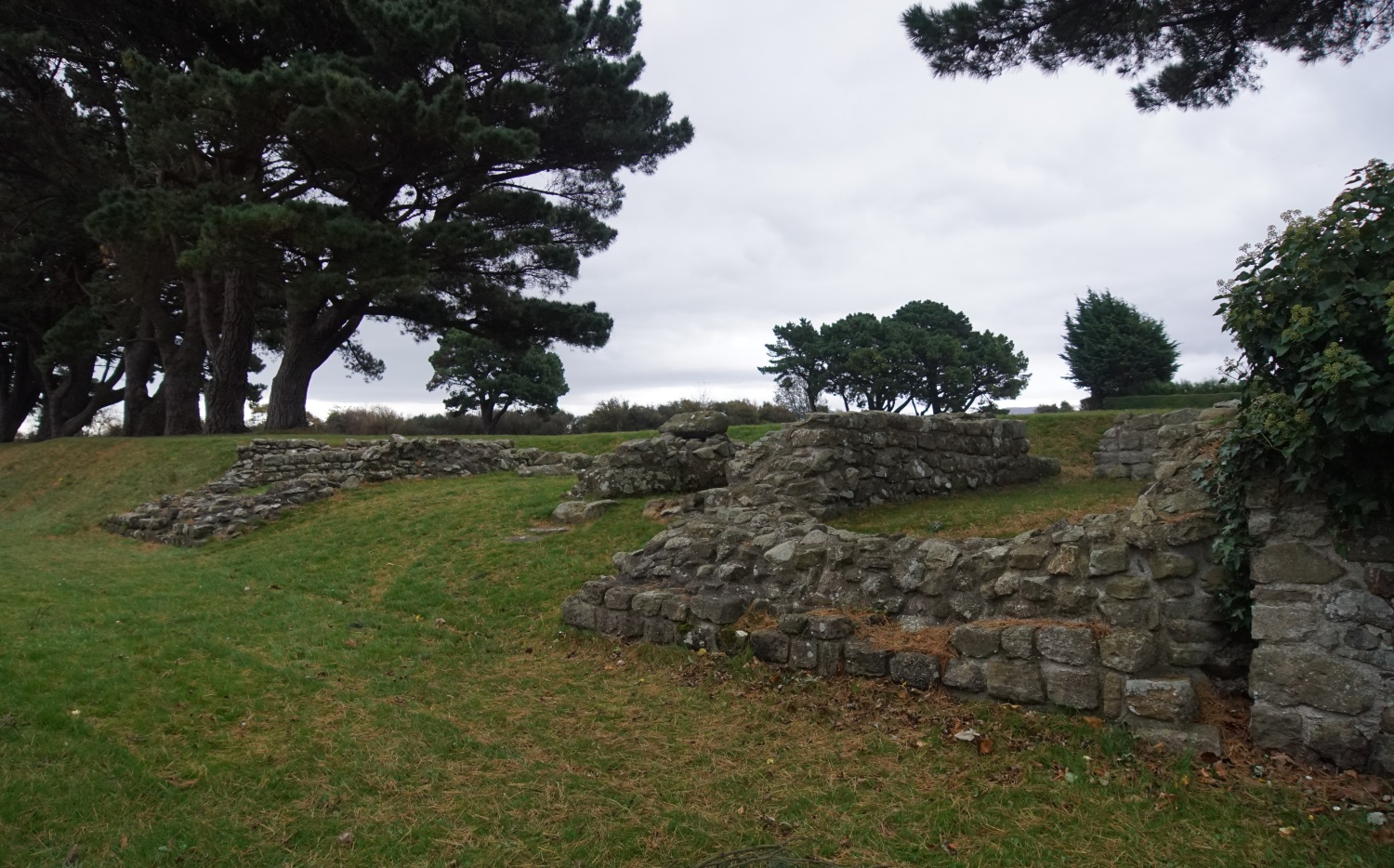 Segontium Roman Fort, Caernarfon, Wales. Remains of the west gate.